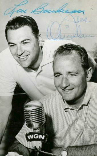 Postcard photo of Lou Boudreau and Jack Quinlan as Chicago Cubs broadcasters in 1958. The card was sent in response to mail.